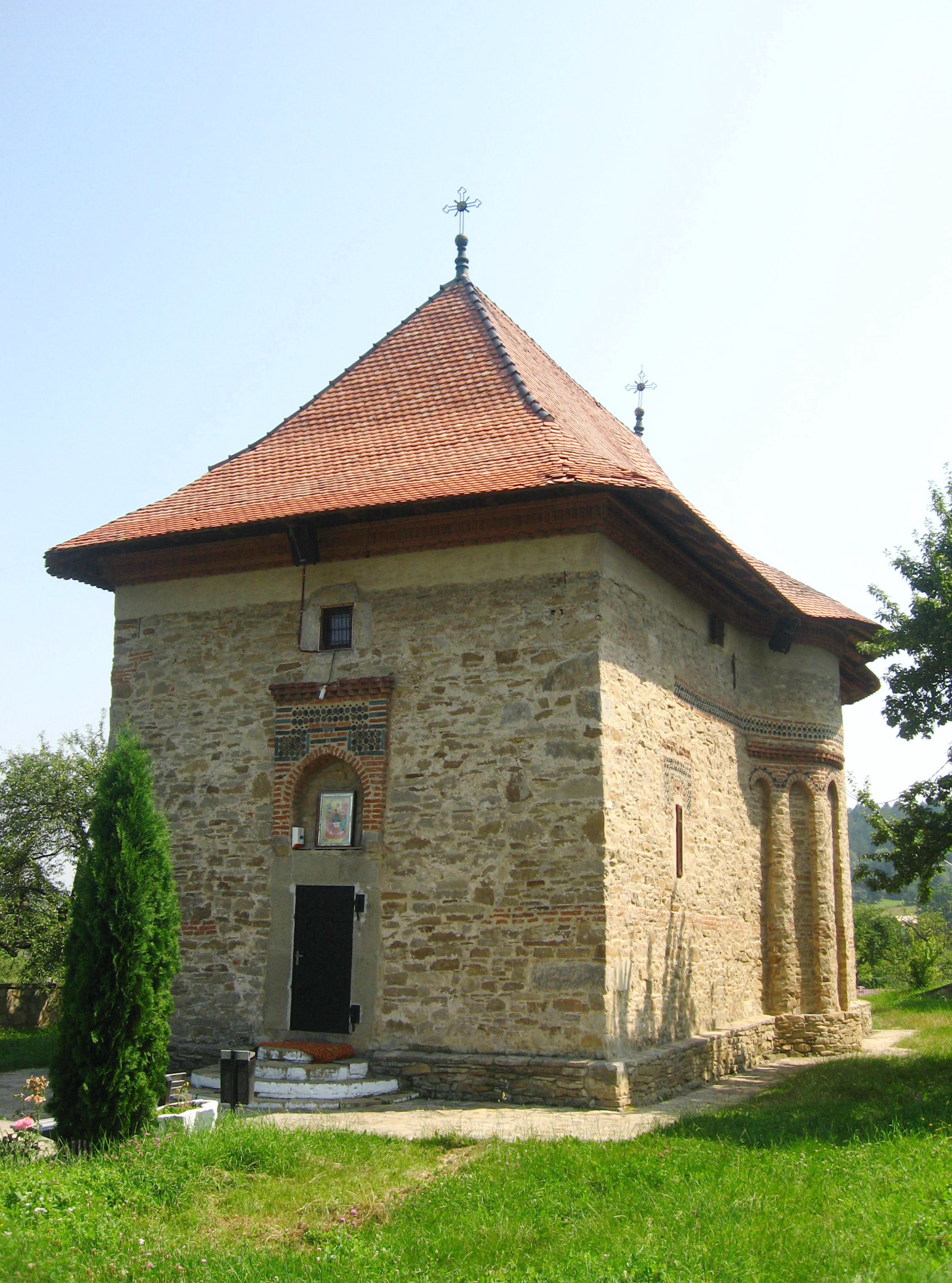 Biserica Sfânta Treime din Siret 01